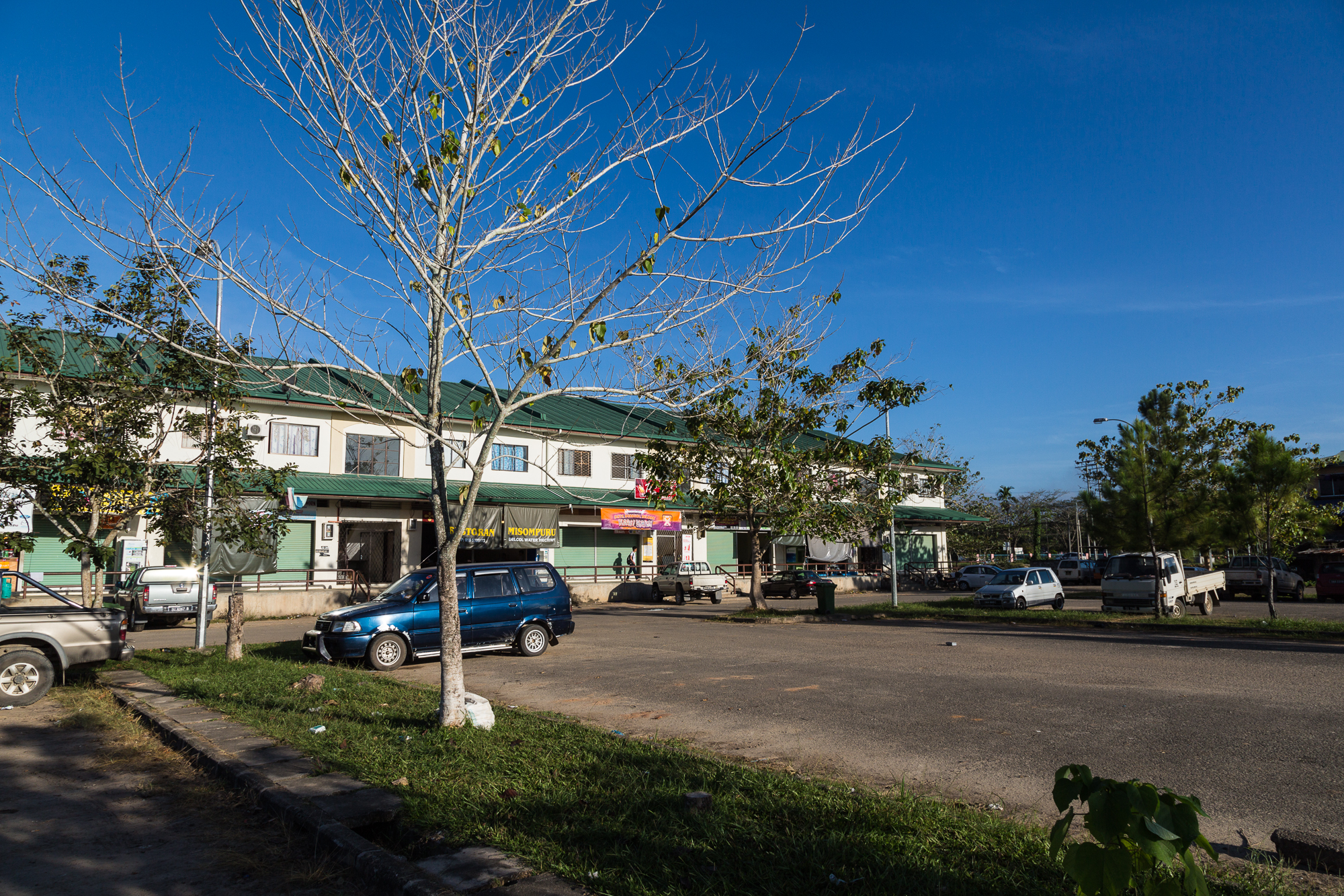 Sook, Sabah: Pekan Sook